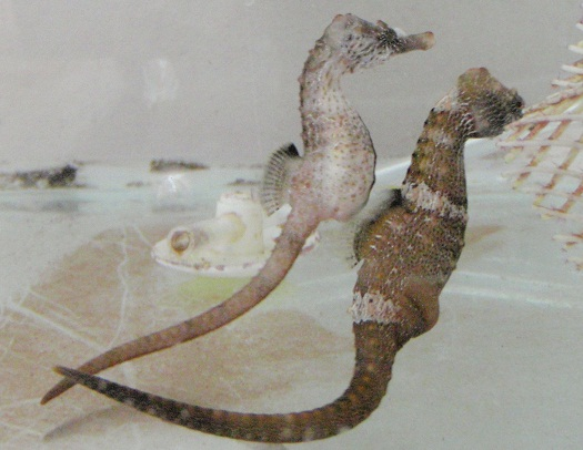 cortejo de Hippocampus patagonicus